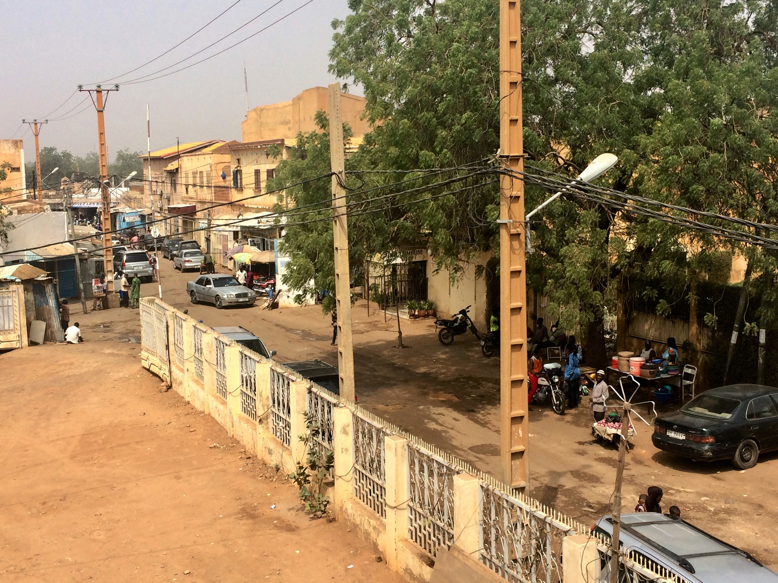 Rue du Festival (Rue NB-30) in Niamey, Niger (Niamey Bas, Petit Marché neighborhood)